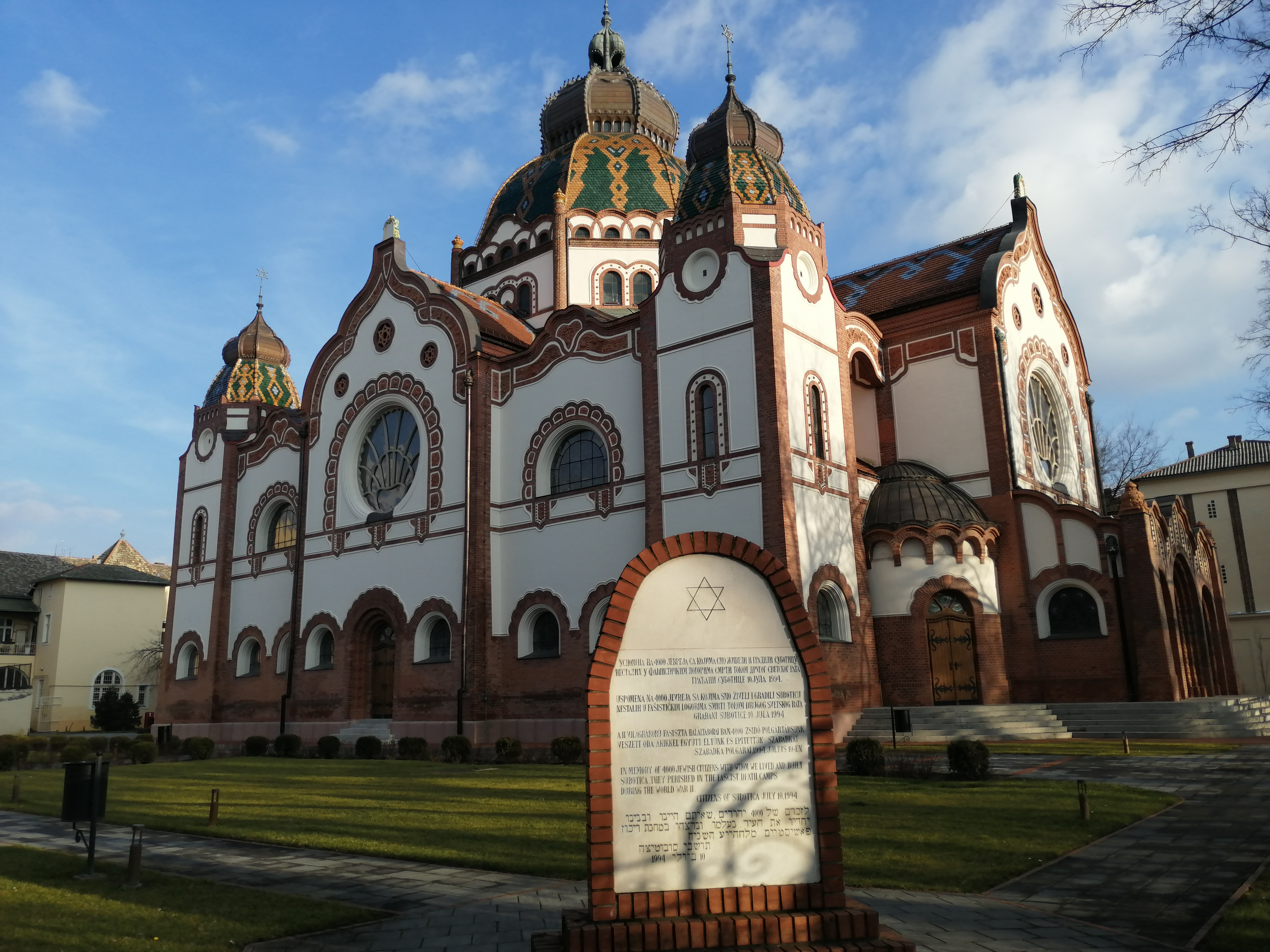 Synagogue in Subotica Srpski (latinica): Sinagoga u Subotici